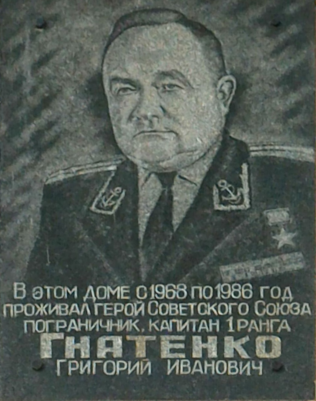 Memorial plaque to Grigoriy Gnatenko, Hero of USSR. Ilyichyovsk, 1 maya, 10